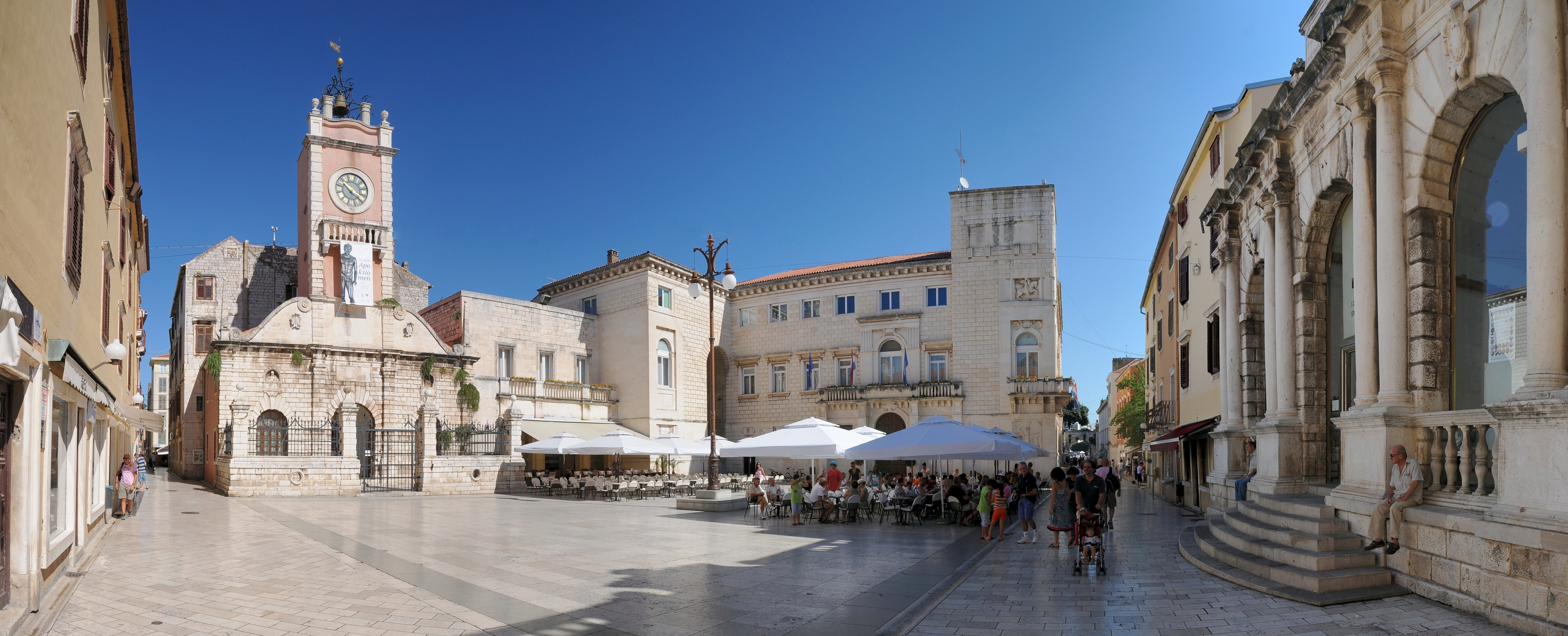 Narodni trg (People's Square), Zadar, Croatia.Exif: Nikon D300s, F8, 1/250sec, ISO200, 16mm